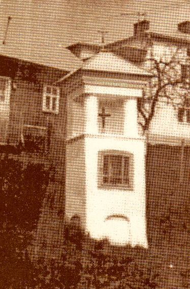 The chapel "u Gomiaczki" was built in Pakoszówka by Peter Kotsylovsky Scanned material that does not stamped sign of copyright ®